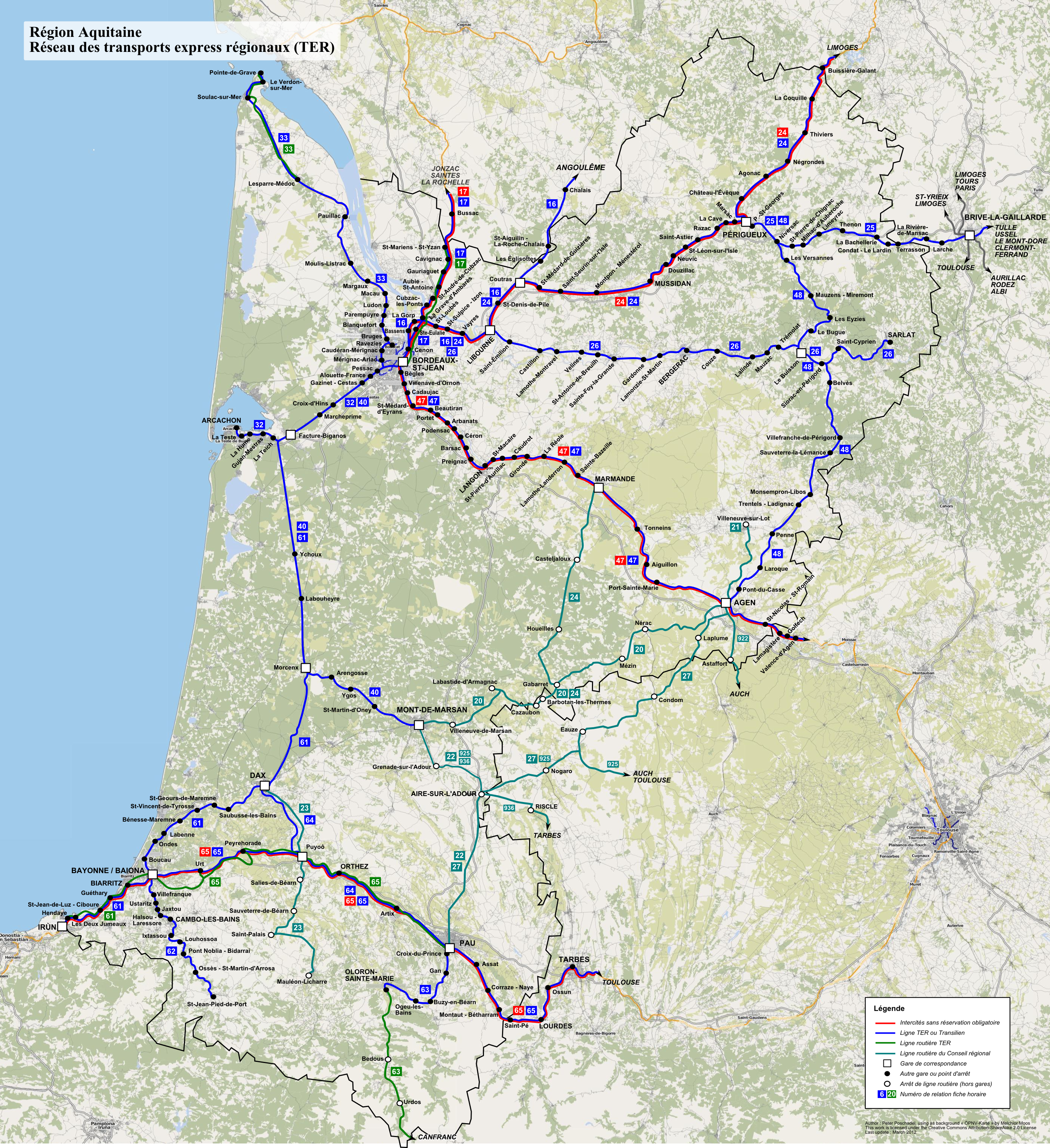 Region Aquitaine, regional transport network (TER)